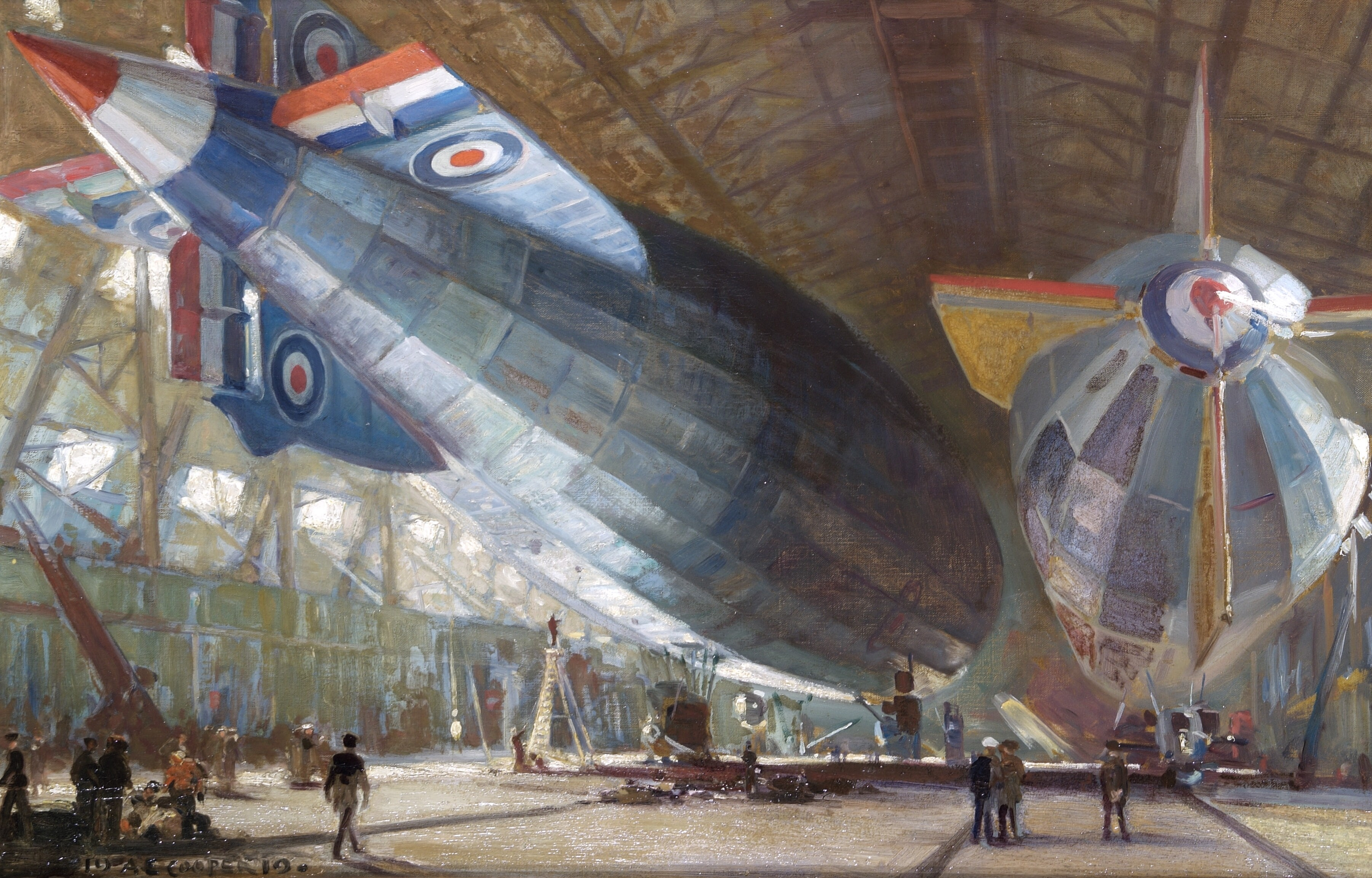 r 34' and 'r 29' in the Shed at East Fortune image: Two enormous airships being worked on within a hangar-like aircraft shed. Workers are visible on the ground, appearing tiny next to the airships.